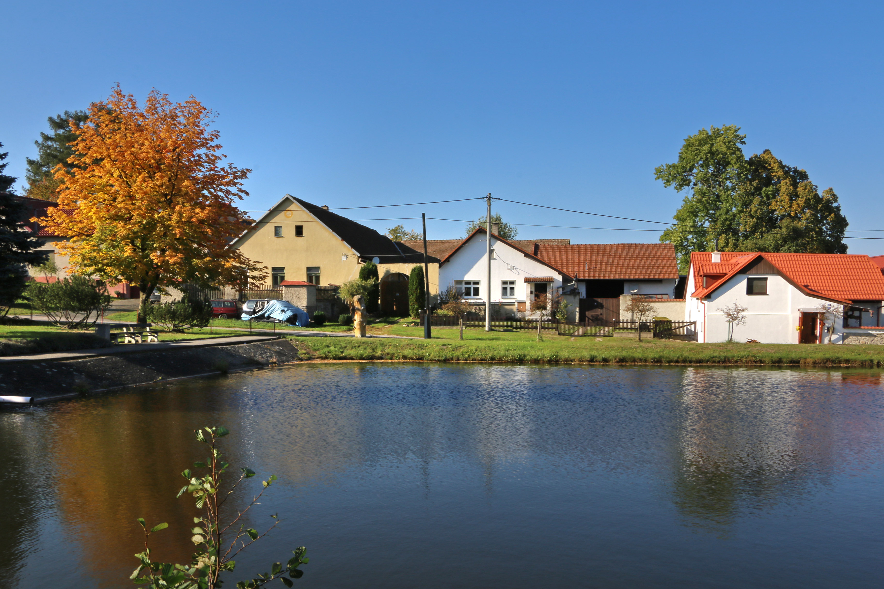 Common pond in Švábov, Czech Republic.